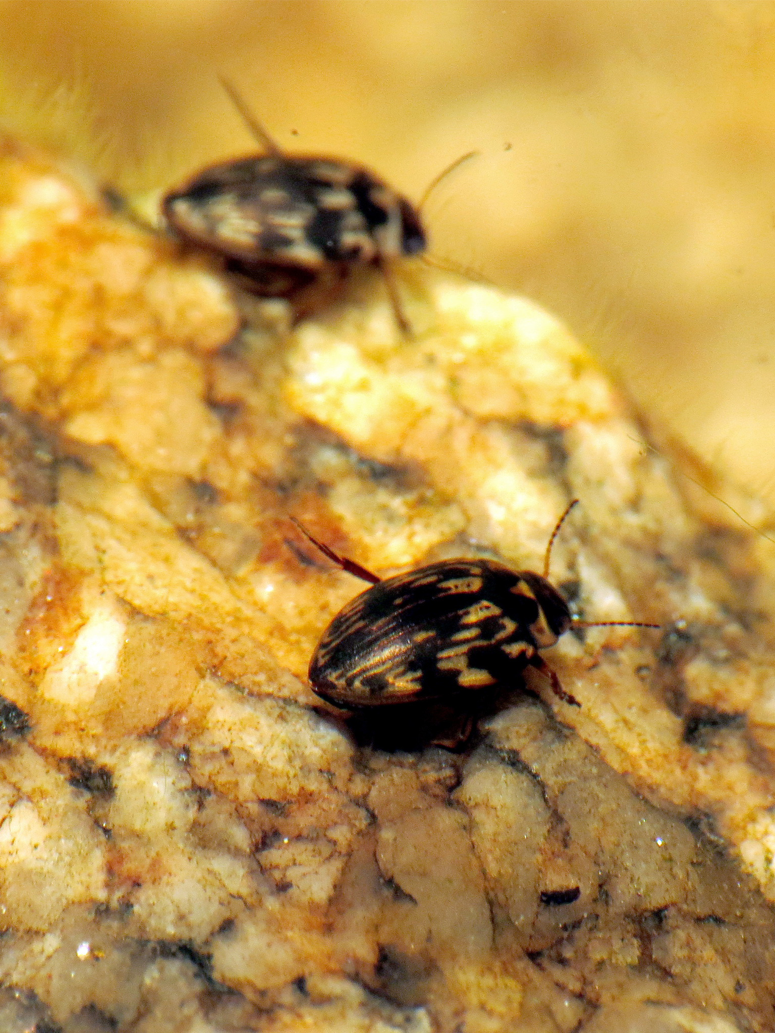 Boreonectes aequinoctialis. Species of diving beetle.